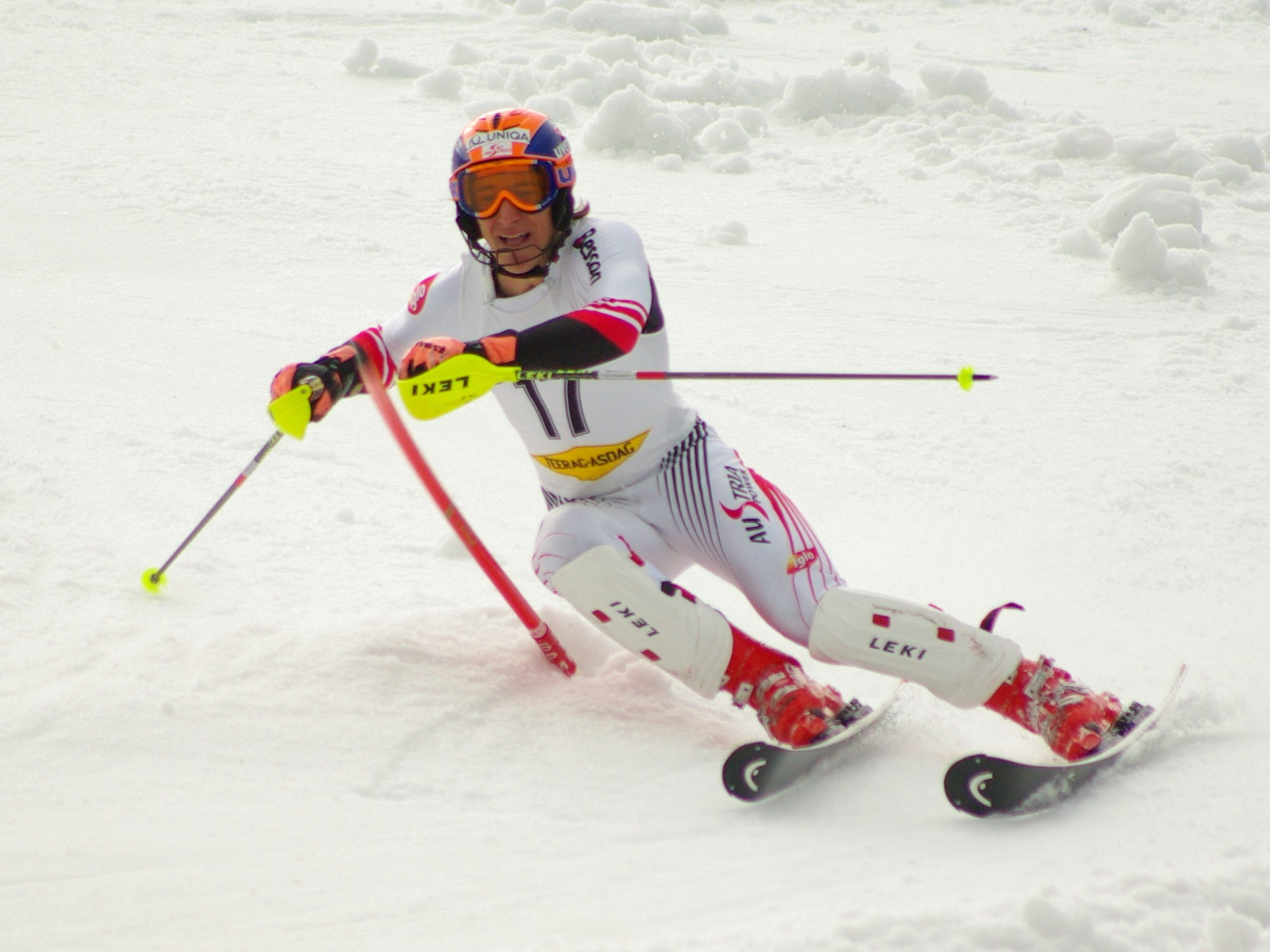 Austrian alpine skier Matthias Mayer during the slalom run of the FIS super combined in Spital am Semmering, Austria on 11 March 2008.